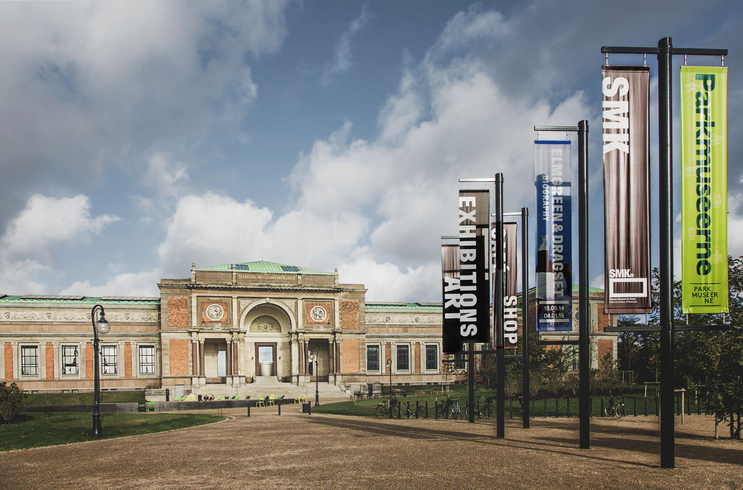 SMK Entrance